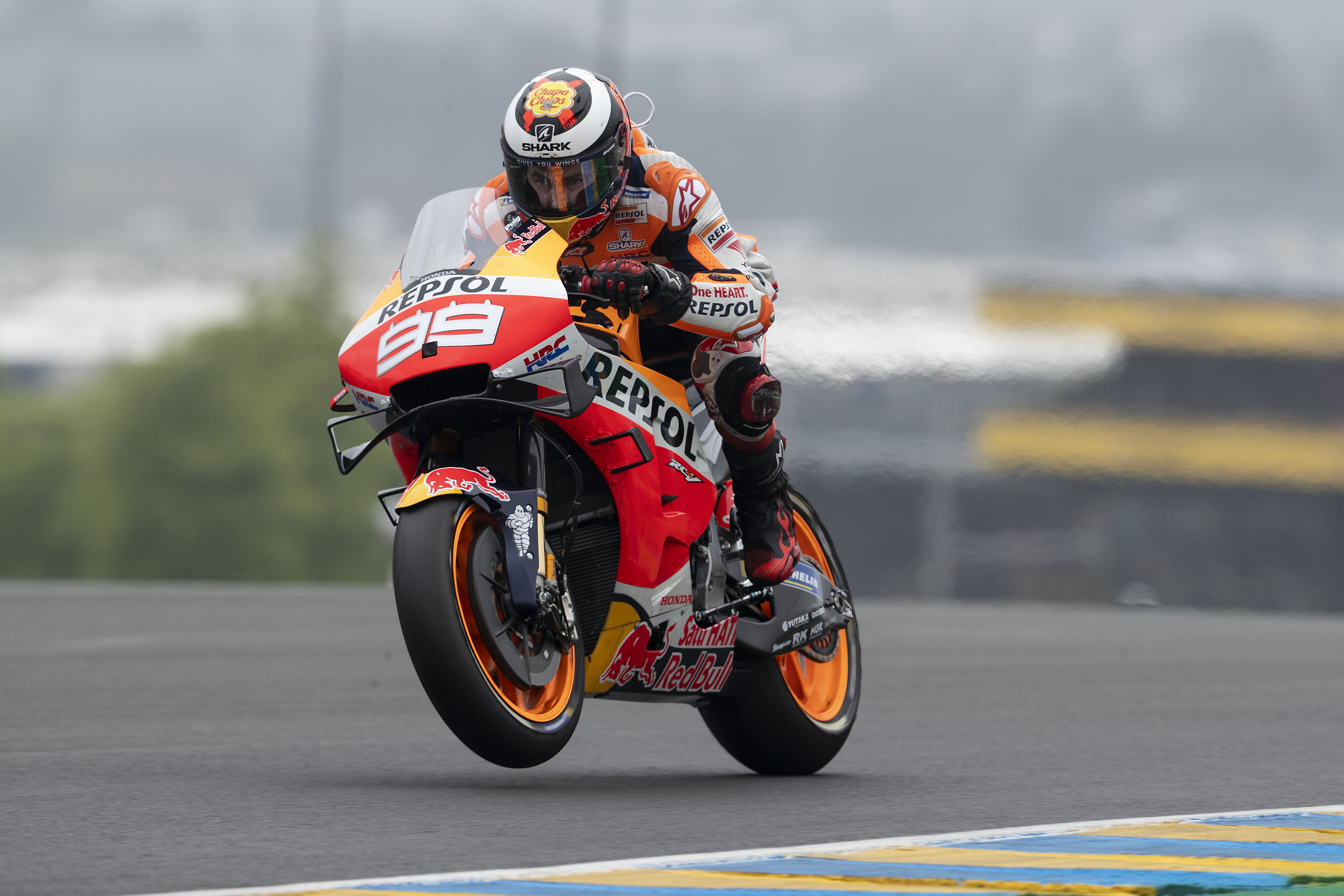 Jorge Lorenzo, riding his Repsol Honda at the 2019 French Grand Prix.